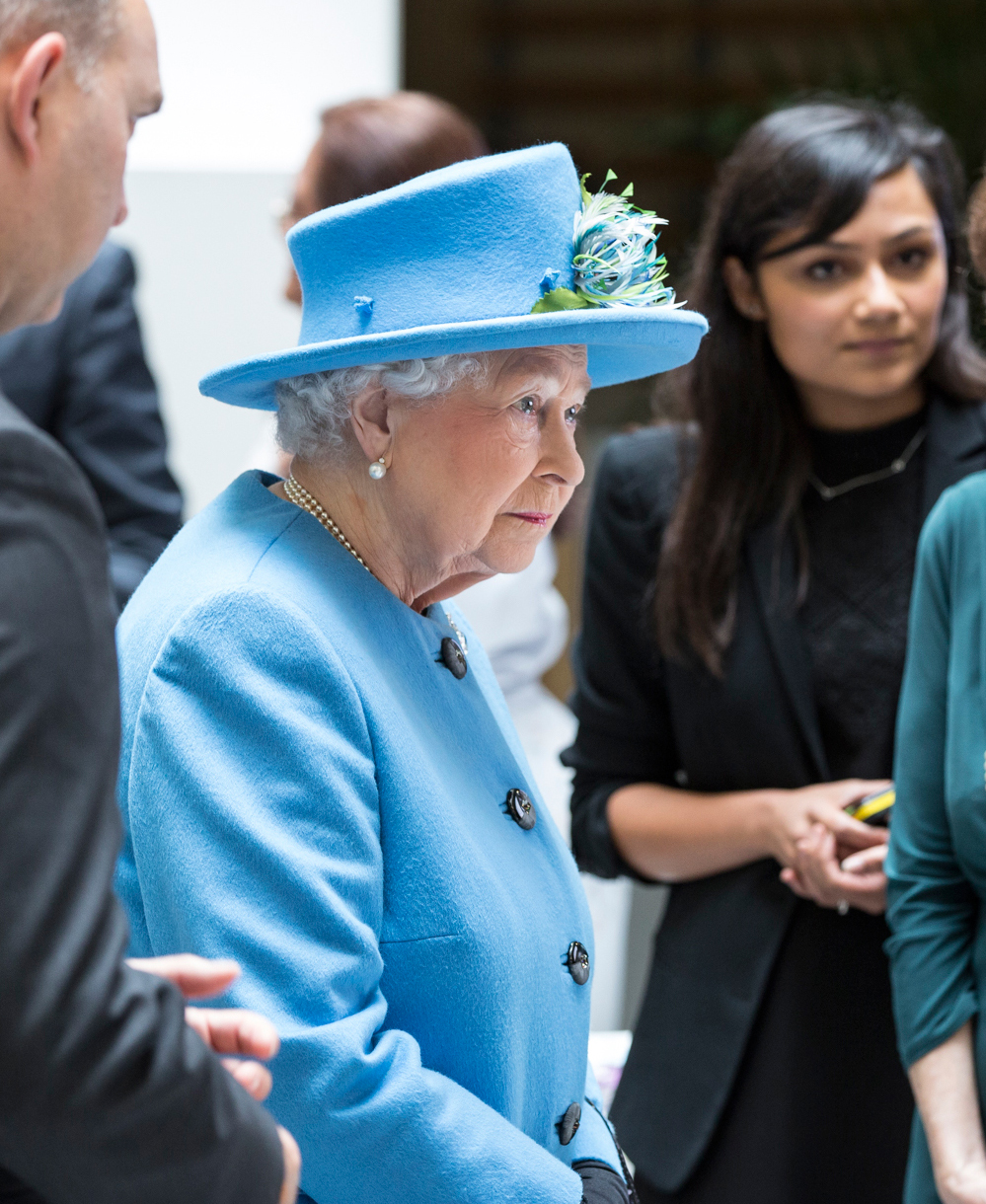 The Queen meets employees at Home Office HQ.